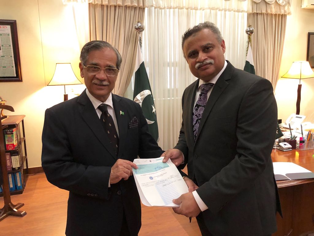 Chairman Pakistan National Shipping Corporation (PNSC) Rizwan Ahmed Presenting Cheque To Chief Justice Of Pakistan Mr. Justice Mian Saqib Nisar For Diamer Bhasha And Mohmand Dam